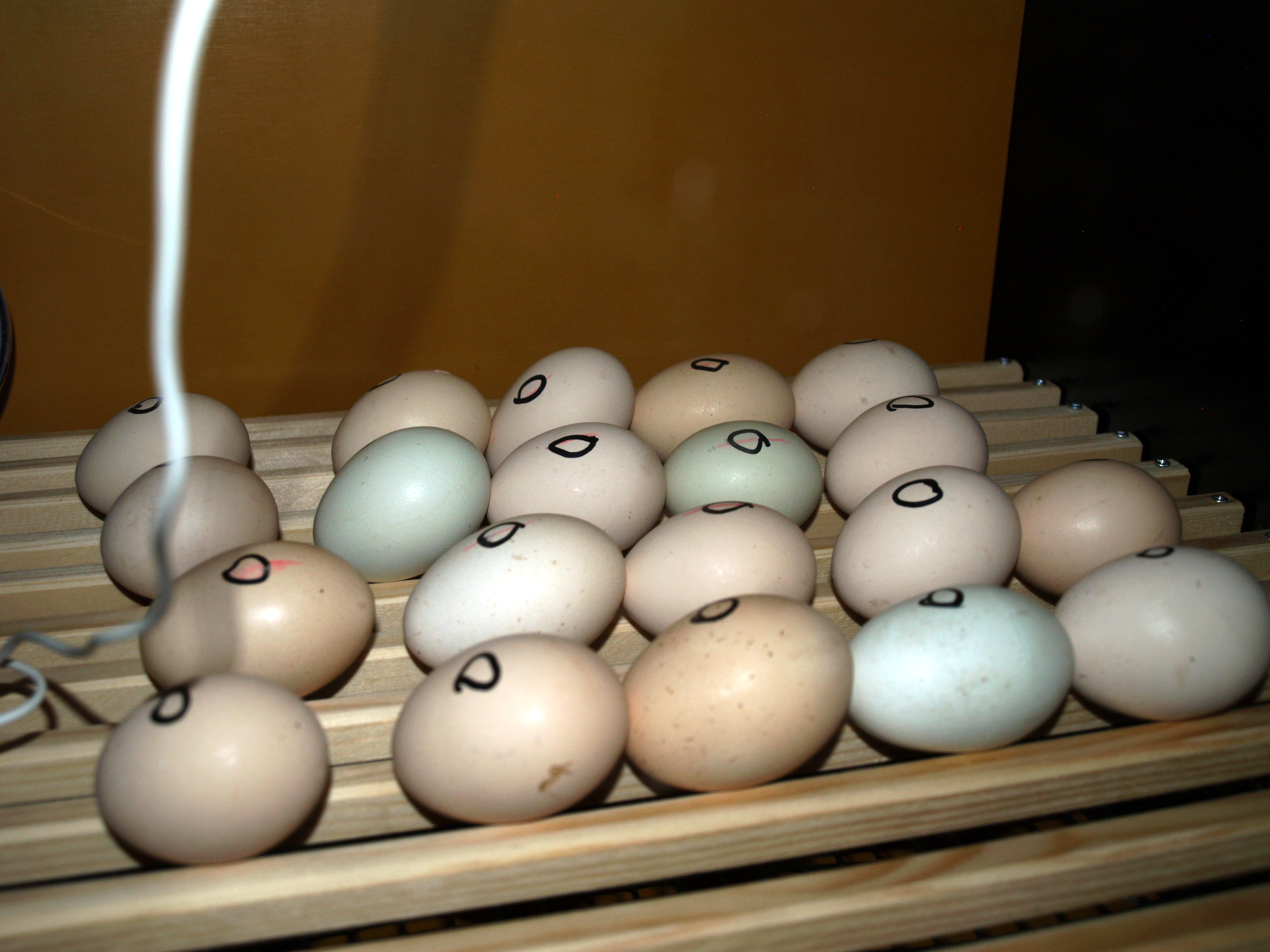 Eggs in incubator.